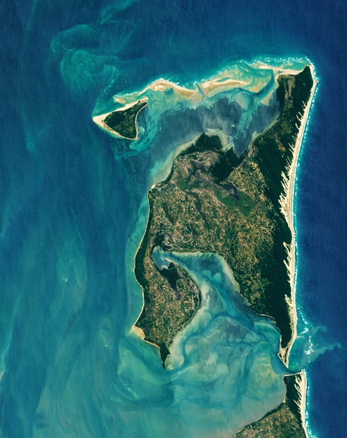 Captured by the Copernicus Sentinel-2 mission, this image shows Inhaca Island in Maputo Bay, southern Mozambique. Portuguese island is linked by a series of sand banks to the northern peninsula, while the mainland's Machangulo Peninsula is separated by a narrow channel from the southern peninsula.